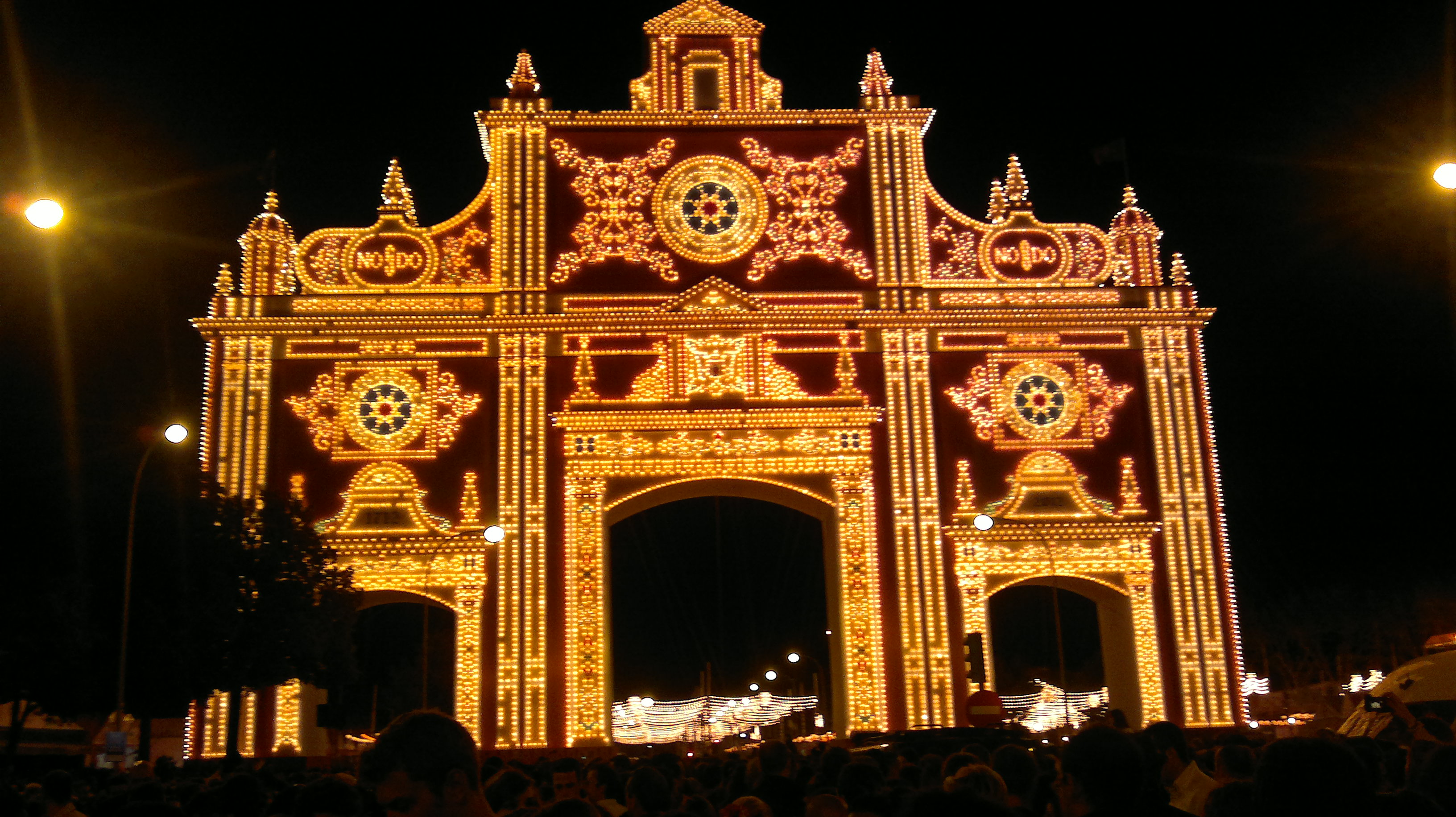 The main entrance to the Seville Fair 2012. Desiged by Manuel Jesús Jiménez Varo and Miguel Ángel Pérez Cobo.